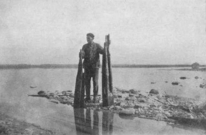 The corner-log of a house at the 1927 survey of the Bulverket in Lake Tingstäde, Gotland, Sweden.